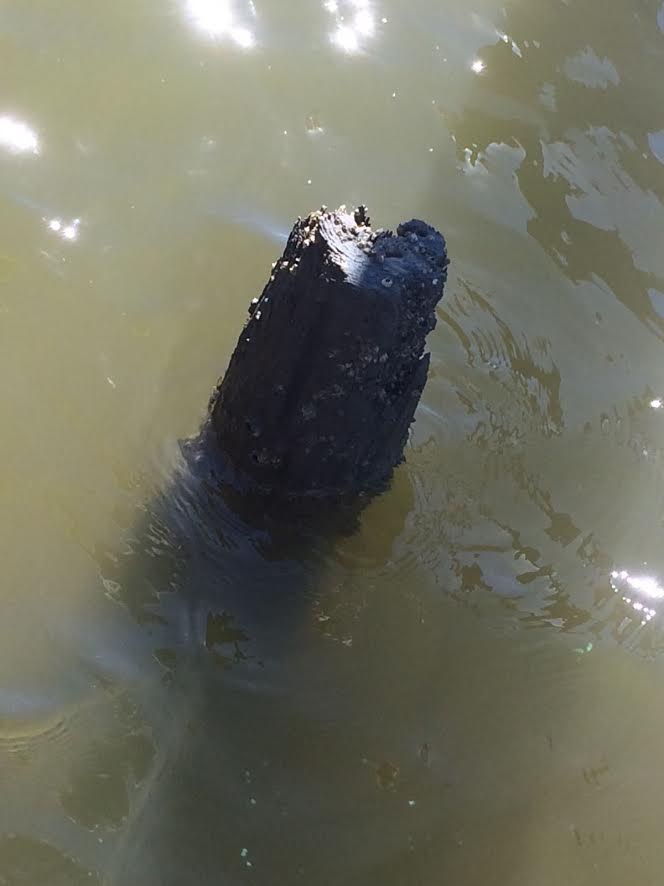 I took this picture at a family members house on Mobile Bay in Fairhope, Alabama. This is a broken creosote piling that was left in the water after it had been weathered by storms and the elements.